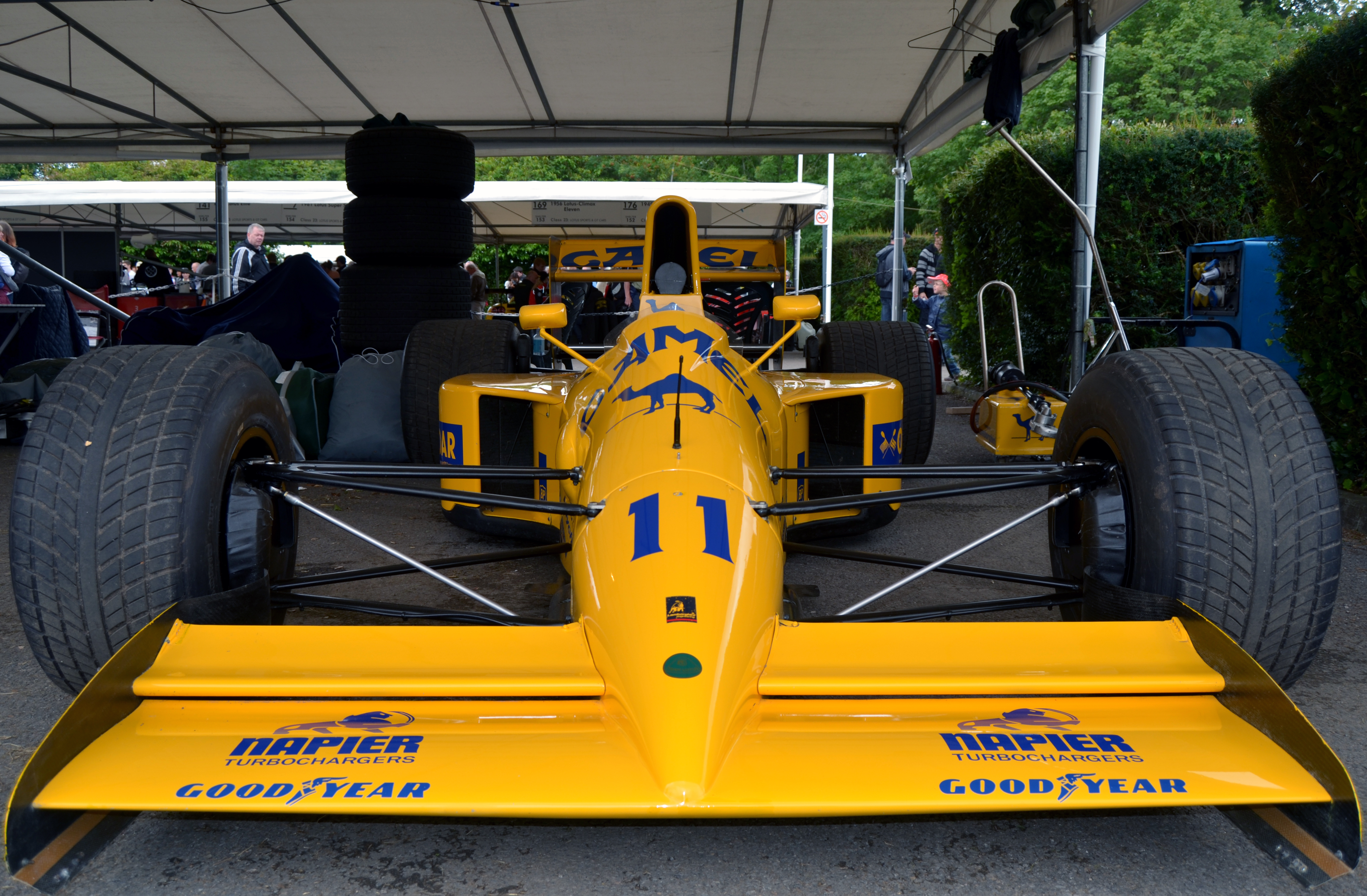 1990 Formula 1 car at the 2012 Goodwood Festival of Speed.